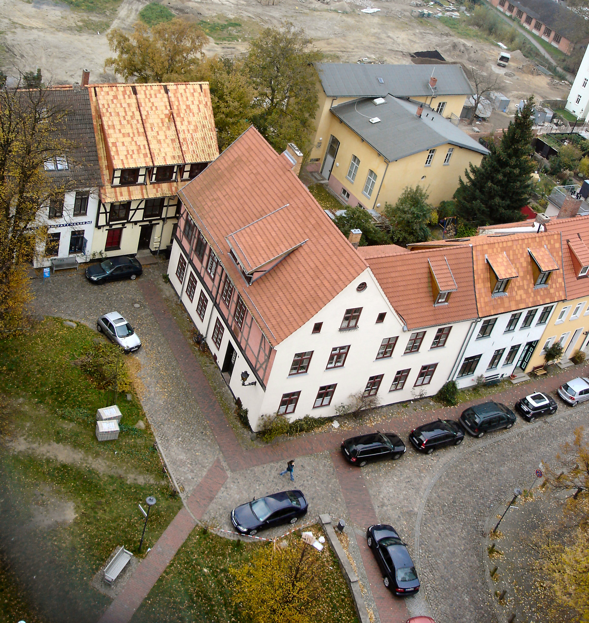 Street in the historic city of Rostock